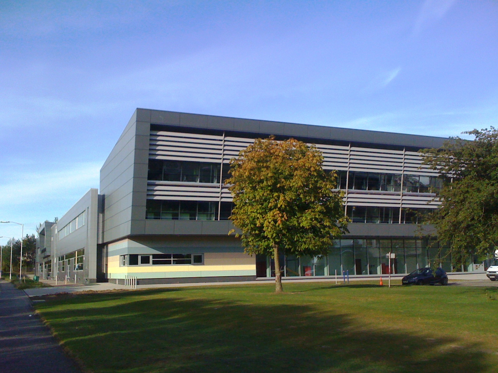 The new campus facility of the Adam Smith College at Stenton Road, Glenrothes.